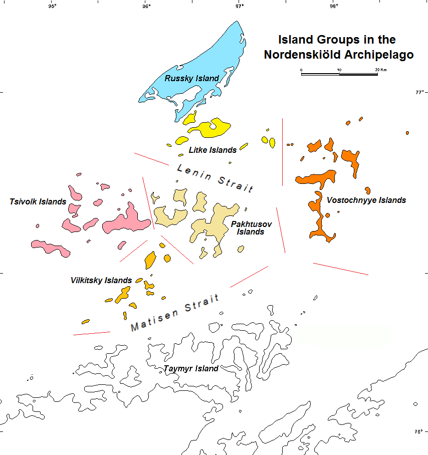 Distribution of the separate groups within the Nordenskiöld Archipelago